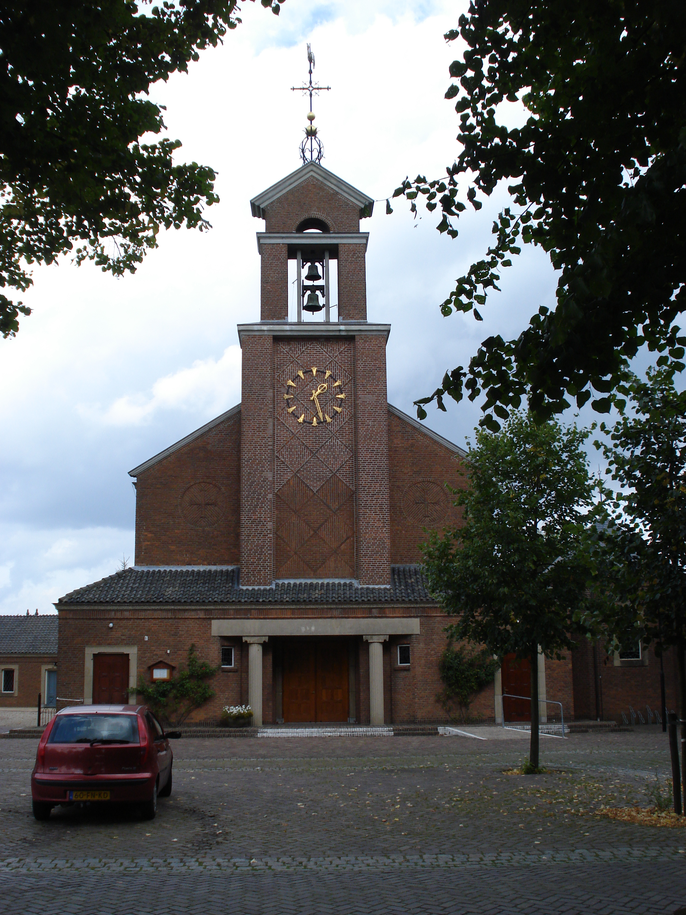 Heumen (Gld, NL) catholic church